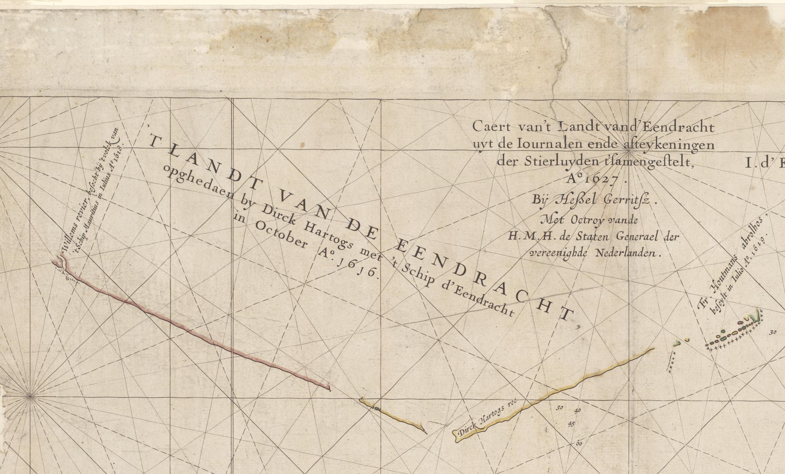 This is an image showing detail of the National Library of Australia's copy of Hessel Gerritsz' 1627 map of the north west coast of Australia entitled "Caert van't Landt van d'Eendracht". This detail shows features labelled "T Landt van de Eendracht, opghedaen by Dirck Hartogs met 't Schip d'Eendracht in October A° 1616" ("The Land of Eendracht", discovered by Dirk Hartog of the Eendracht in October 1616").